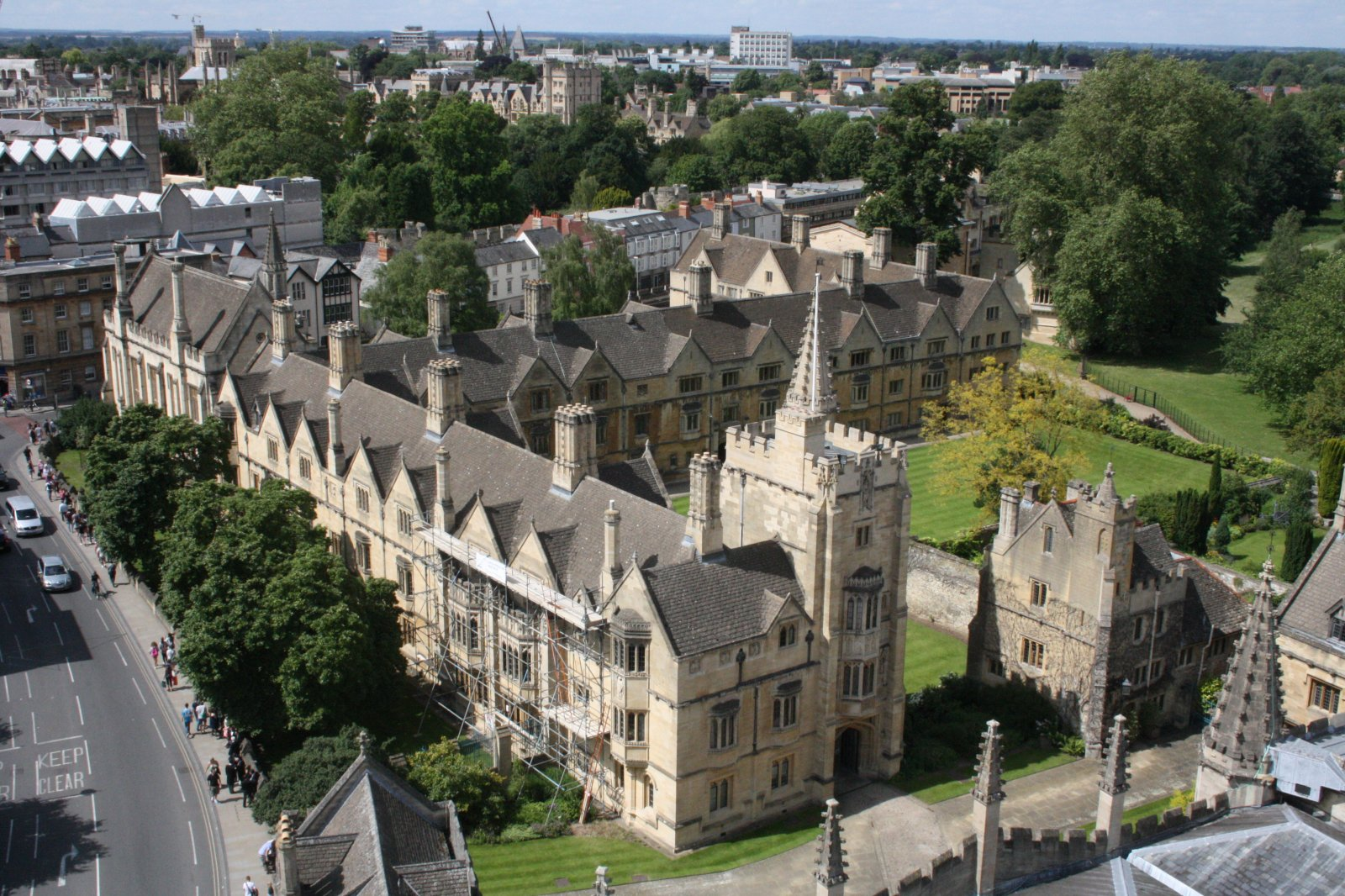 Magdalen College, Oxford. On the bottom right St John's Quad can be seen.